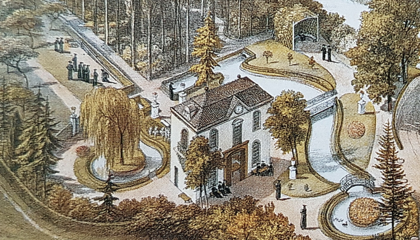 Bird view of Villa Canne near the river Jeker in Maastricht, the Netherlands. Detail of a print that was made by an unknown artist for an album that Petrus Regout - owner of the villa - had put together in 1865/66 for family and friends. The villa and its gardens were at that time used by the Maastricht Jesuits as a rest centre.